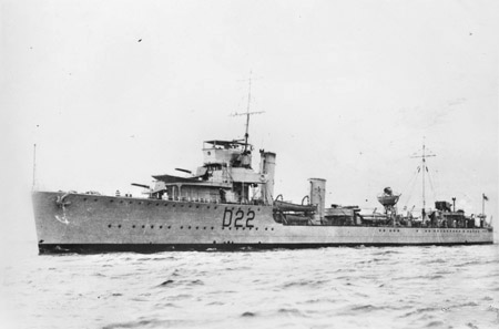 AWM Caption: HMAS WATERHEN WAS ONE OF FOUR V&W CLASS DESTROYERS TRANSFERRED TO THE RAN IN OCTOBER 1933. SHE WAS SUNK ON 30TH JUNE 1941 WHILST TRANSPORTING TROOPS ON THE "TOBRUK FERRY".